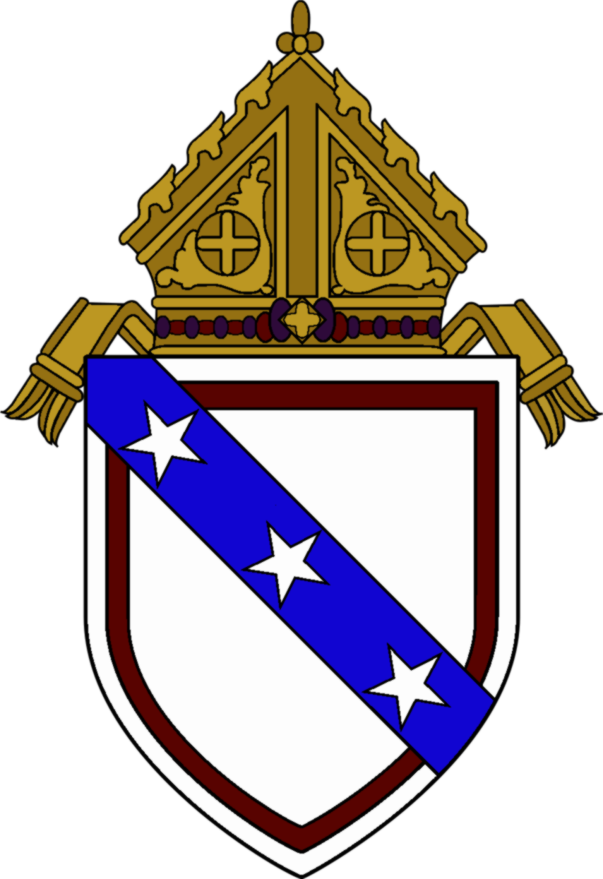 Coat of Arms of Richmond Diocese